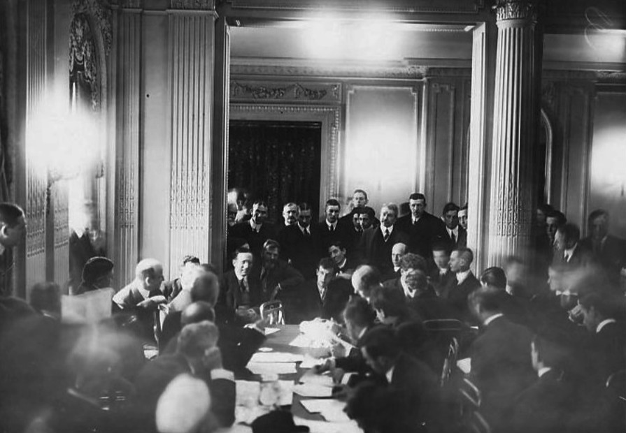 Photo of Harold Bride, the assistant wireless operator of the RMS Titanic, as he testified at a US Senate Committee hearing into the sinking of the ship in 1912.